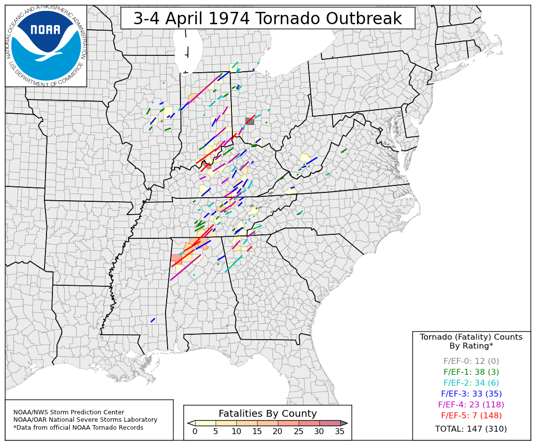 A map of all confirmed tornadoes that touched down during the 1974 Super Outbreak and fatalities that took place by county.